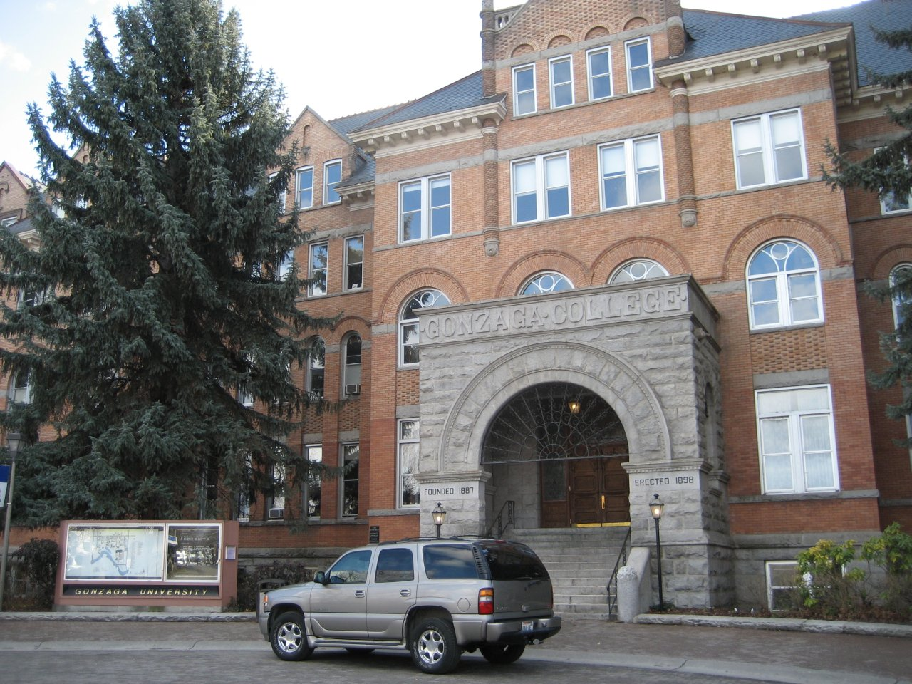 Photo of the front of the Administration Building at Gonzaga University.